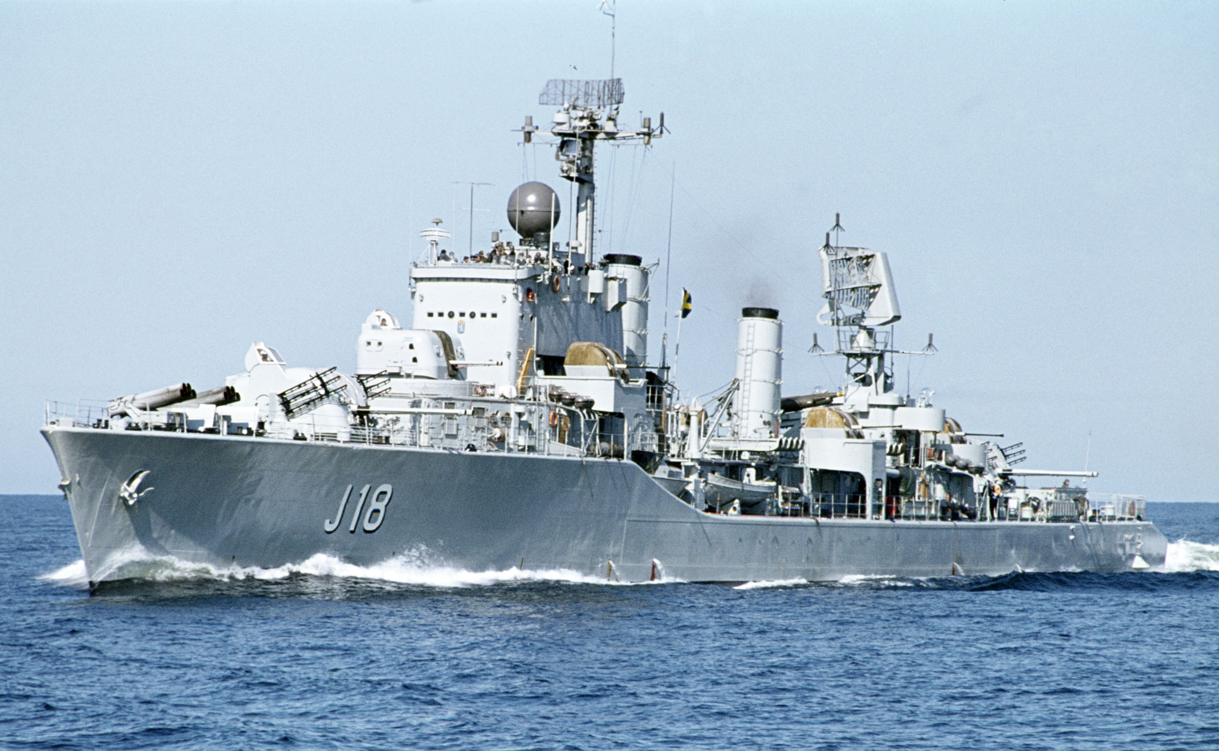 Picture of the Swedish destroyer HMS Halland (J18).